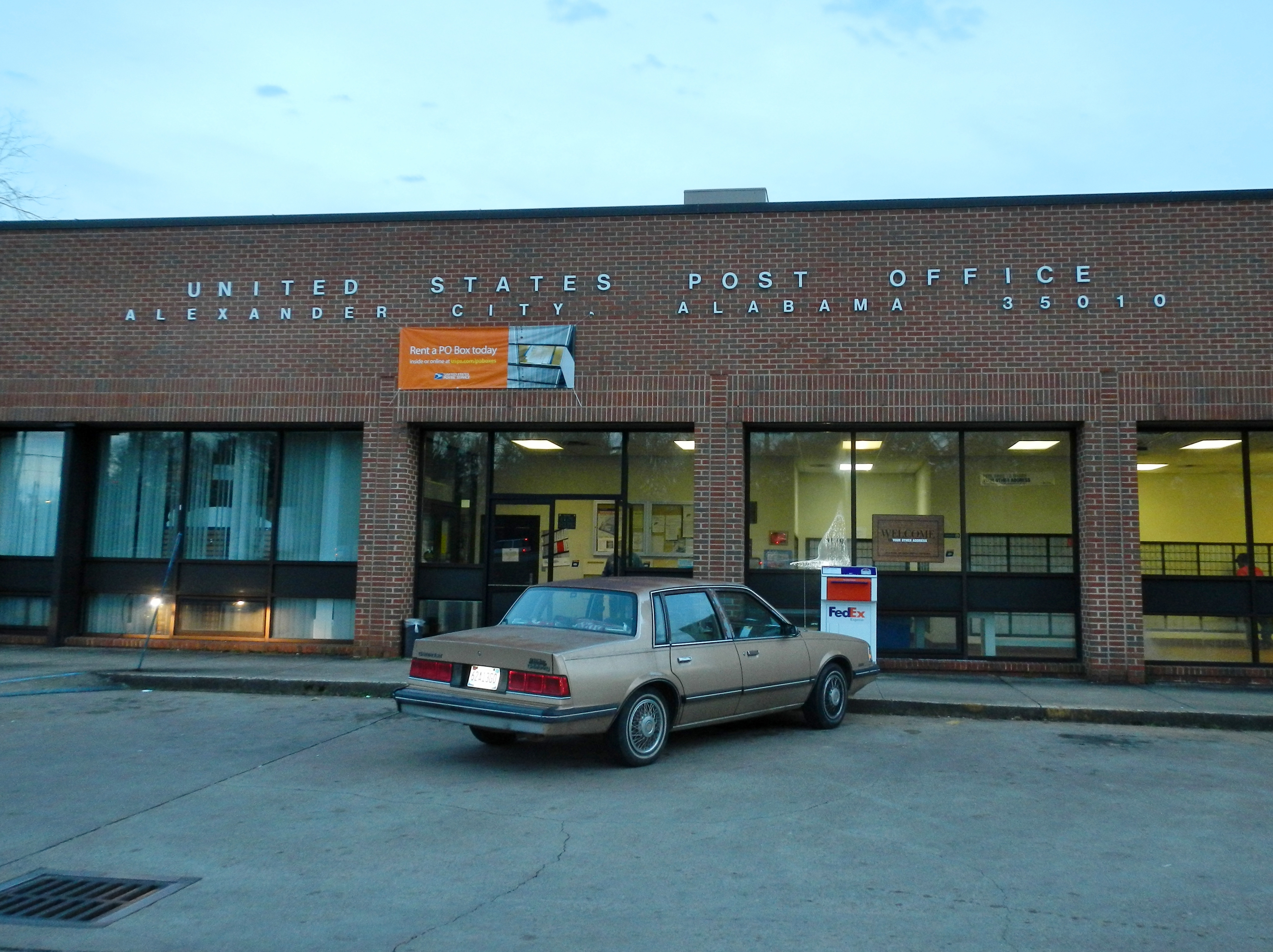 This is a photograph of the post office in Alexander City, Alabama (ZIP code: 35010).